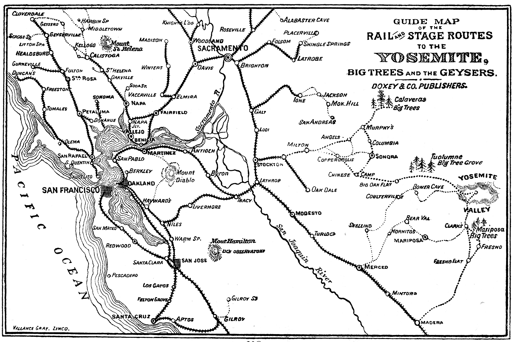 Guide Map of the Rail and Stage Routes to the Yosemite, Big Trees and the Geysers. 1885 Doxey & Co. Publishers